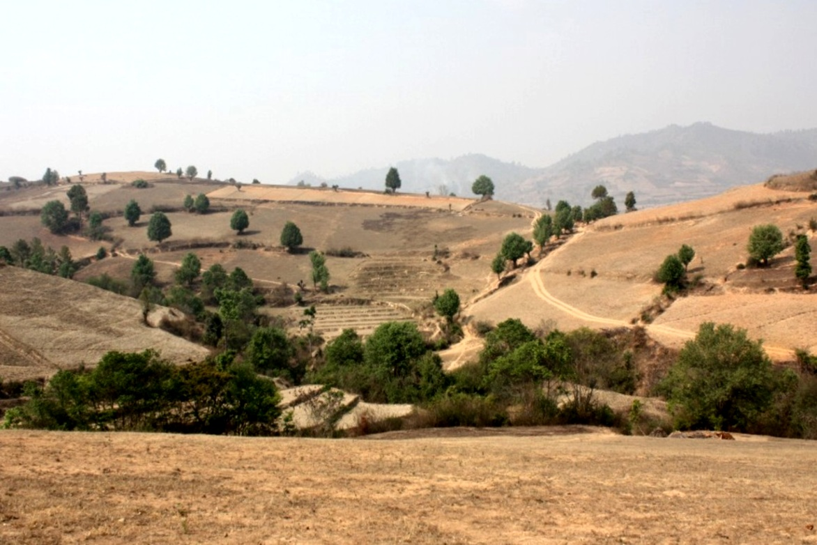 Shan State Hills near kalaw place, dry season landscape.